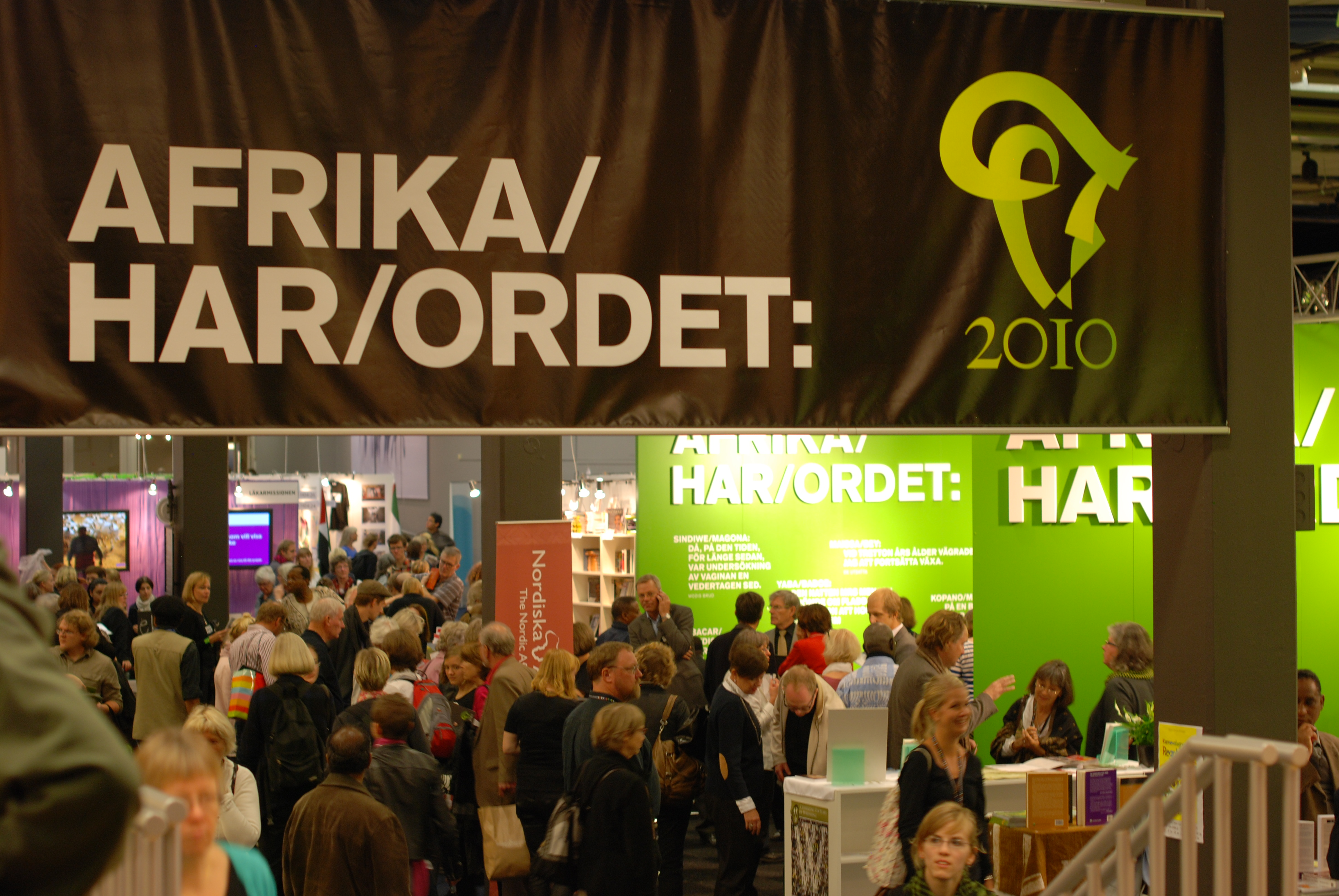 Göteborg Book Fair 2010 theme "Afrika har ordet" (literally "Africa has got the work", also "Now for Africa")